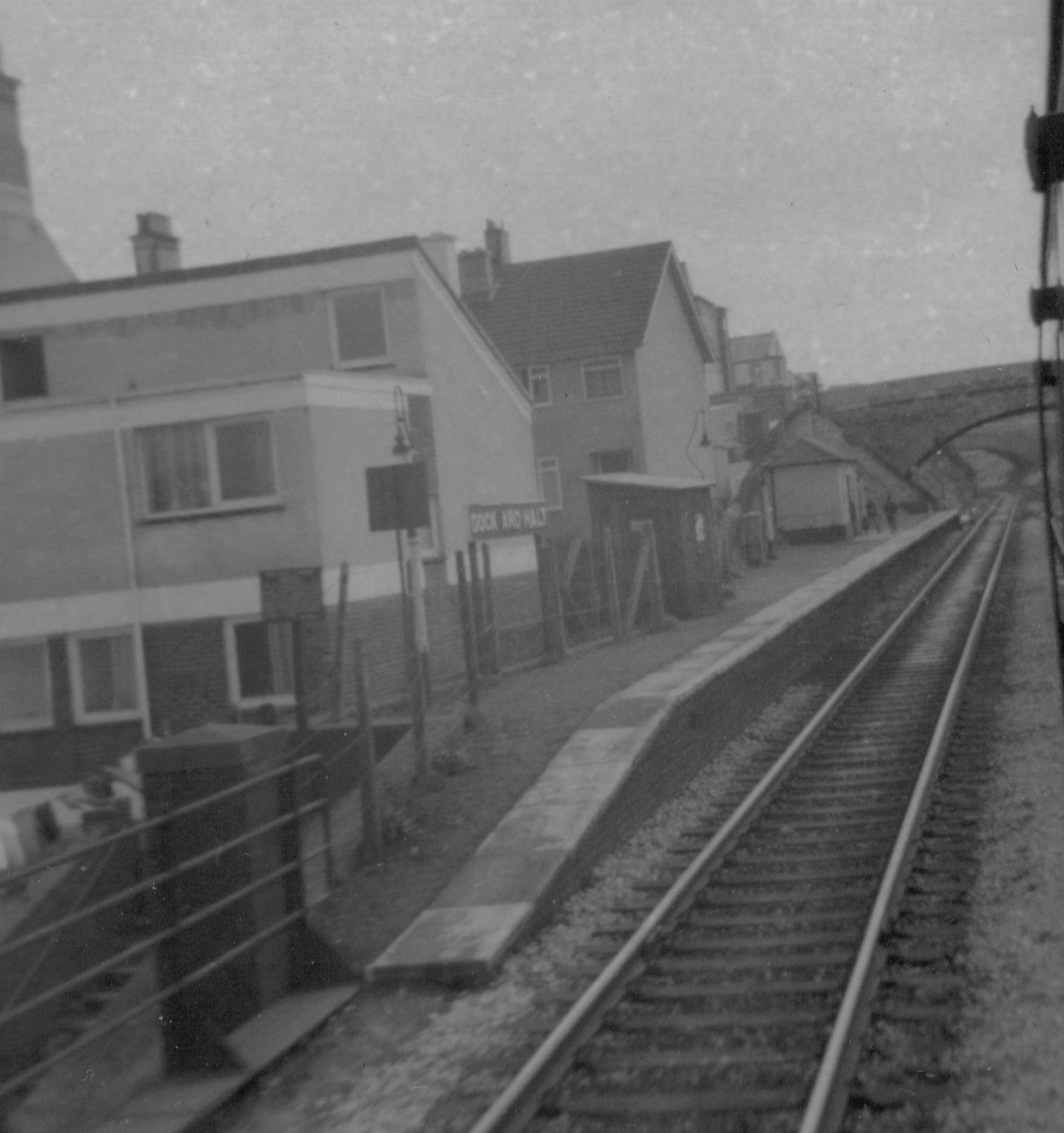 Dockyard Halt, Plymouth in 1970